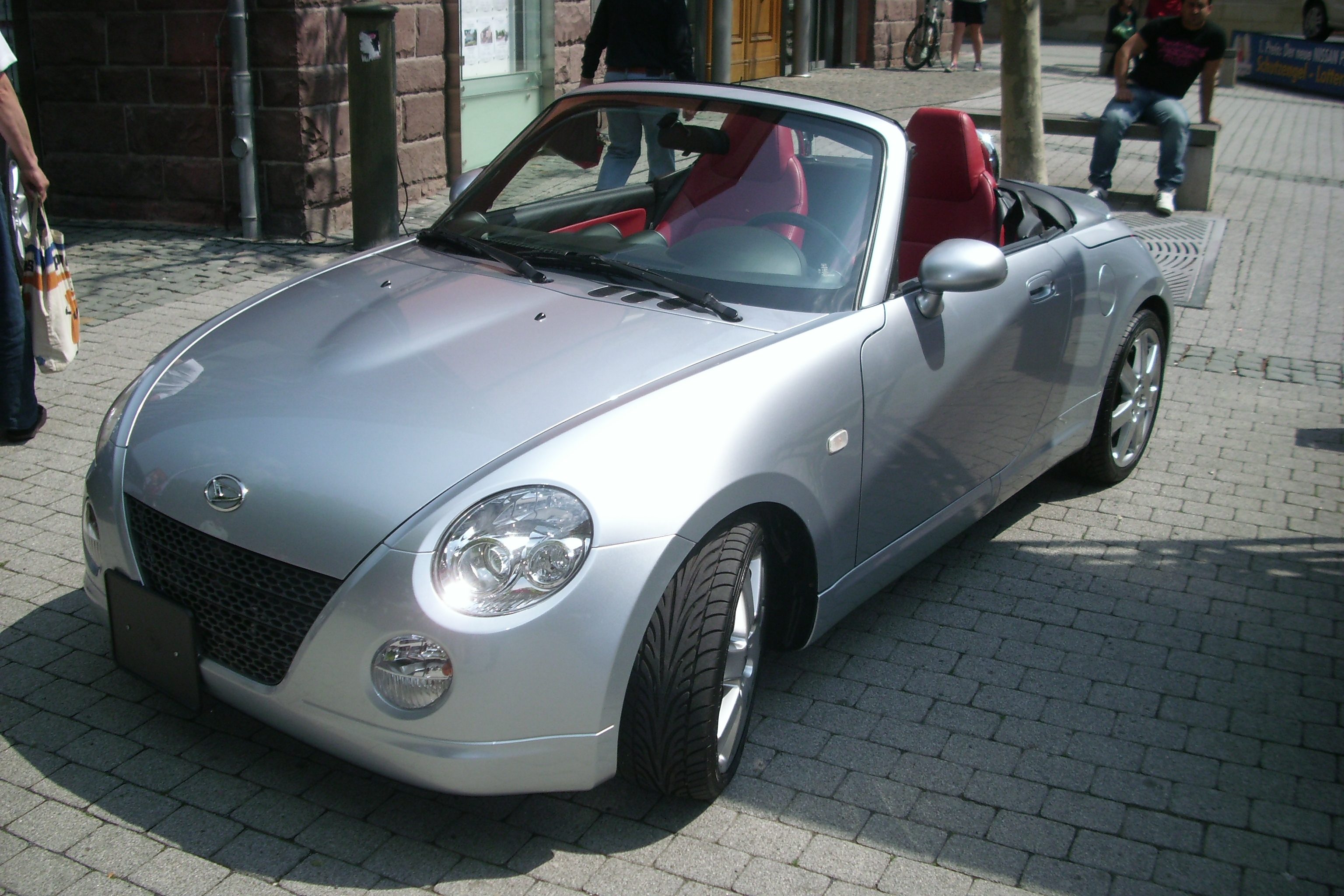 This Daihatsu Copen was photographed in Northeim (Germany).